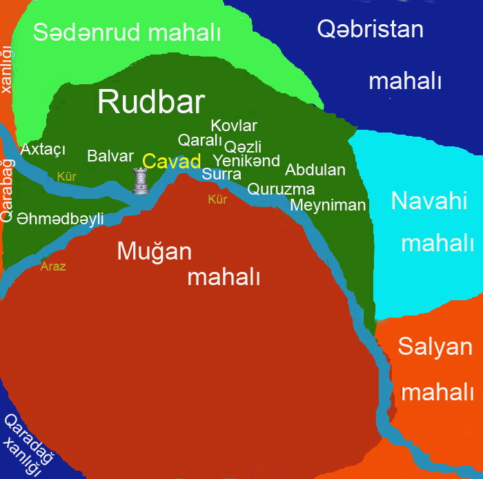 Rudbar district is one of the administrative areas of the Shirvan khanate.